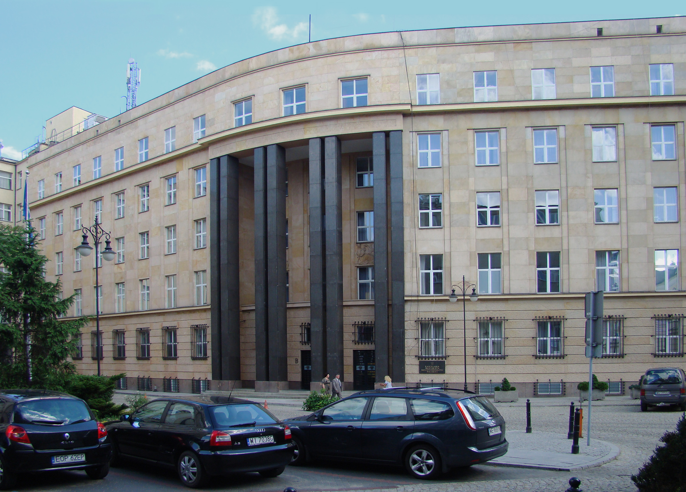 State President's office, former Chamber of Industry and Commerce, Ministry of Foreign Trade, Frascati Street, Warsaw, architect Zdzisław Mączeński